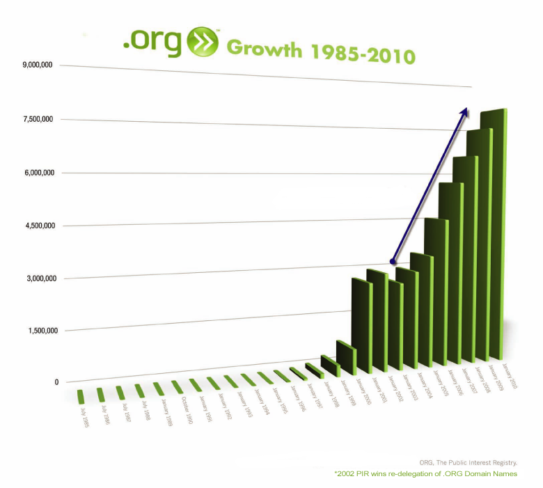 A chart showing the number of registered .org domains since 1985